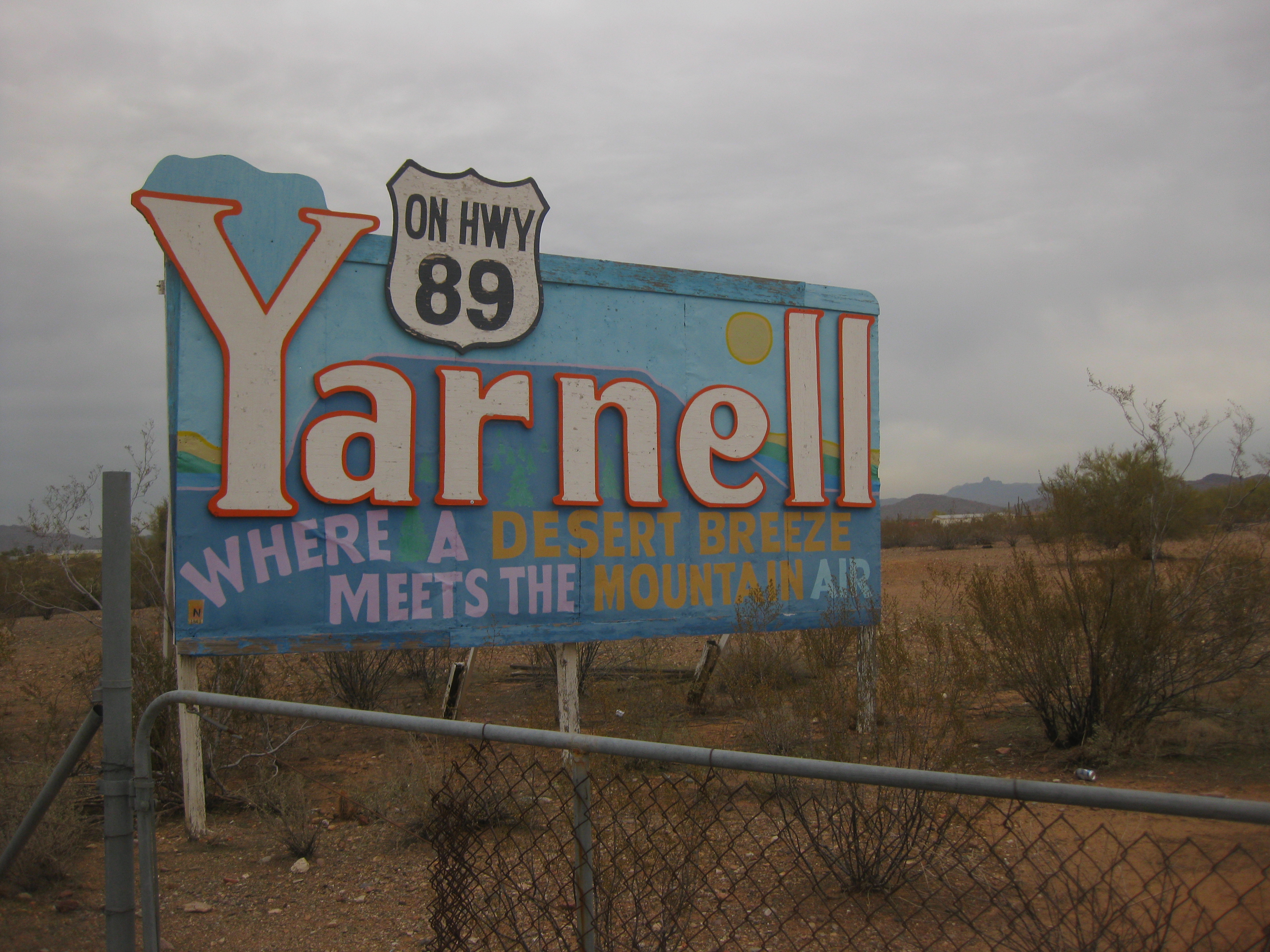 Sign for the city of Yarnell in Arizona